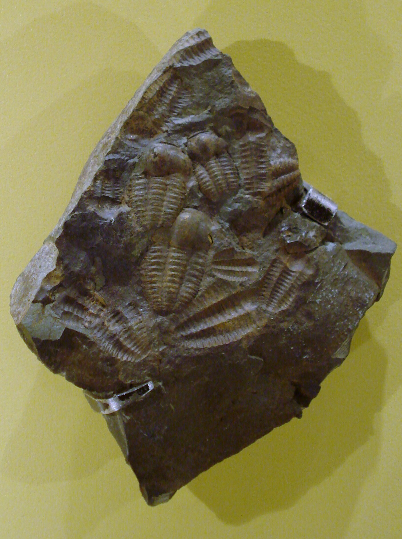 Fossil of Ellipsocephalus, a Cambrian trilobite